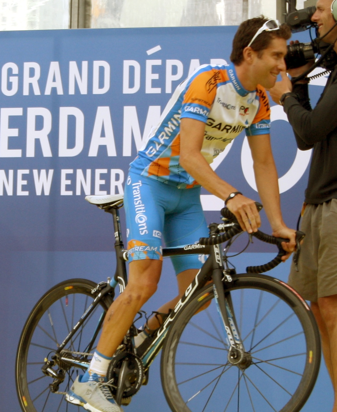 Christian Vande Velde at the team presentation of the 2010 Tour de France in Rotterdam